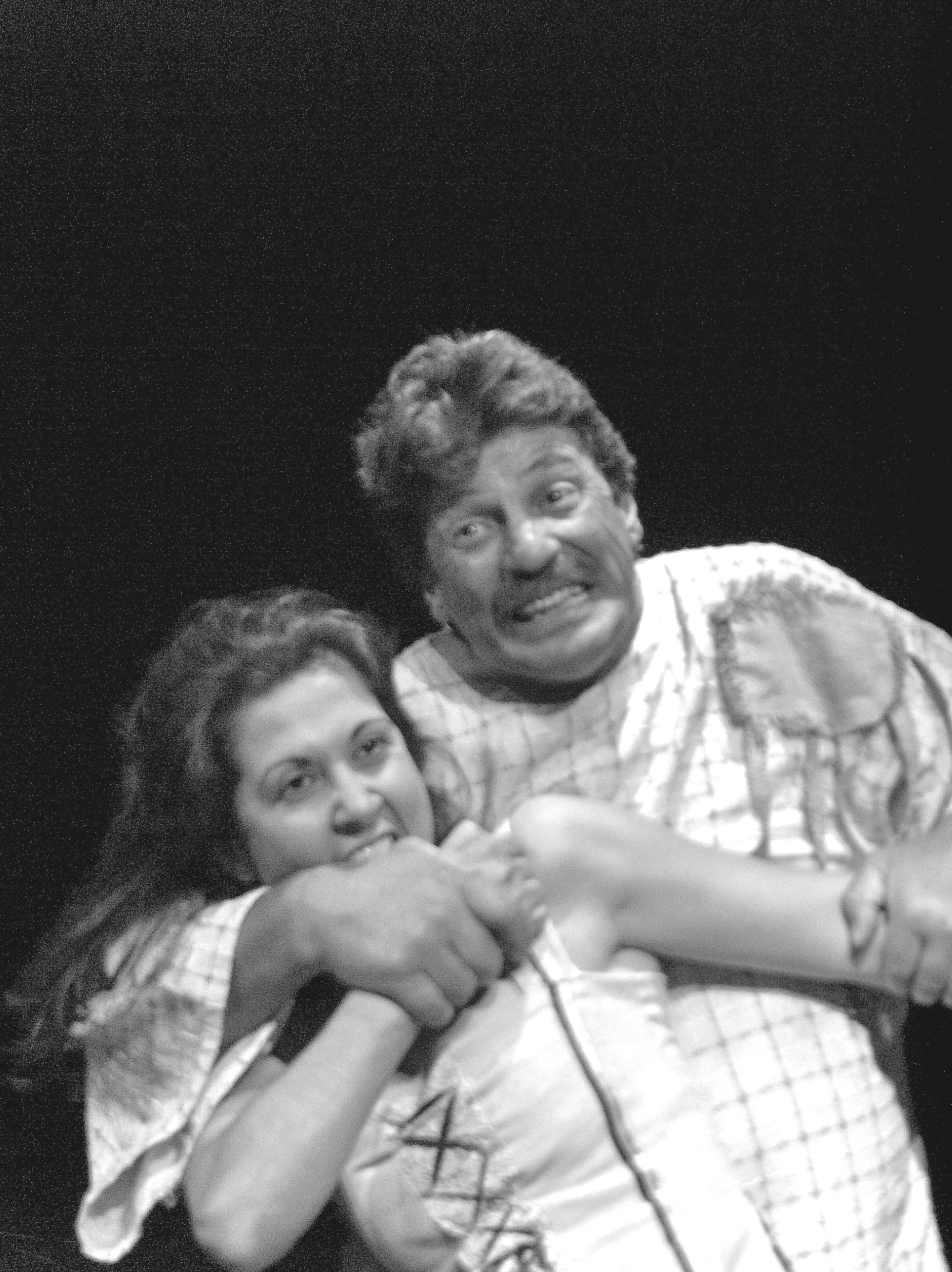 Theofilos association The Taming of the Shrew stage play